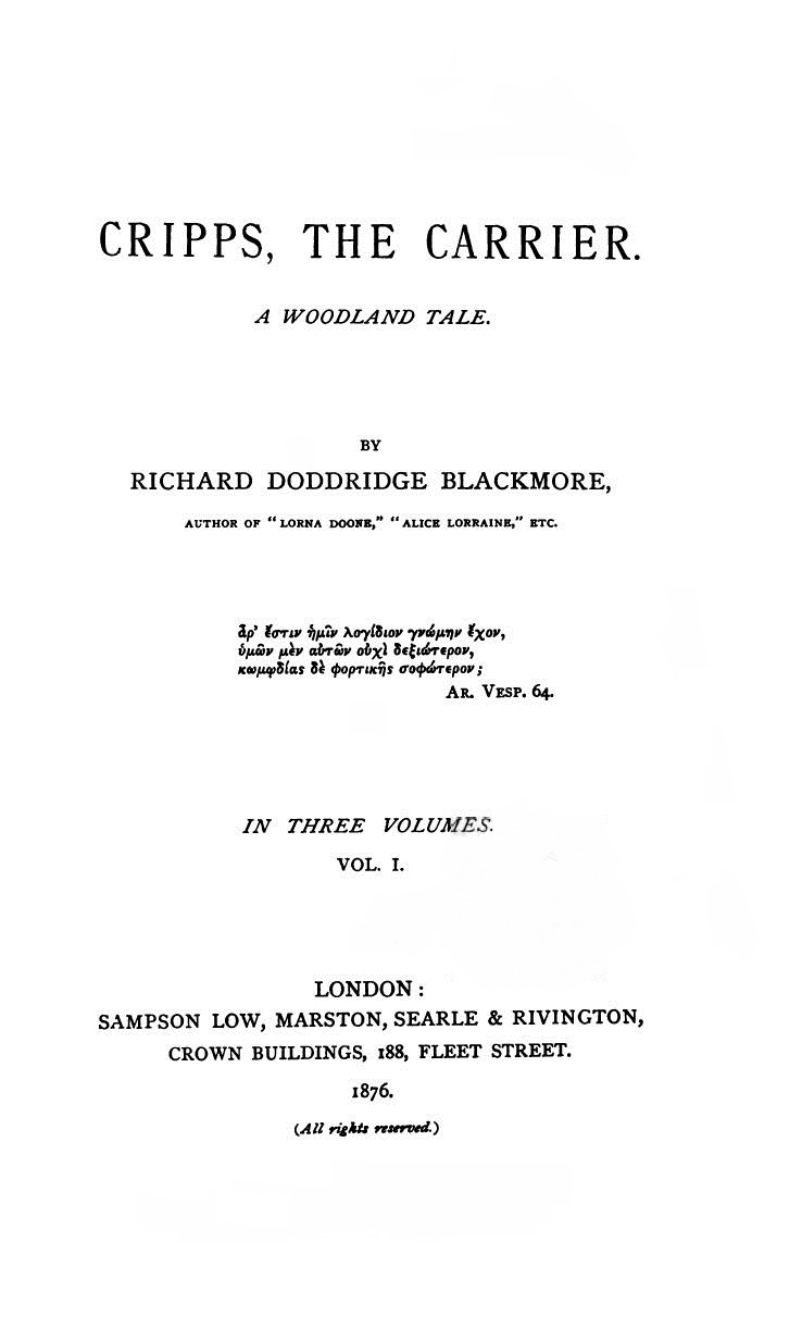 Cripps the Carrier 1st ed title pg